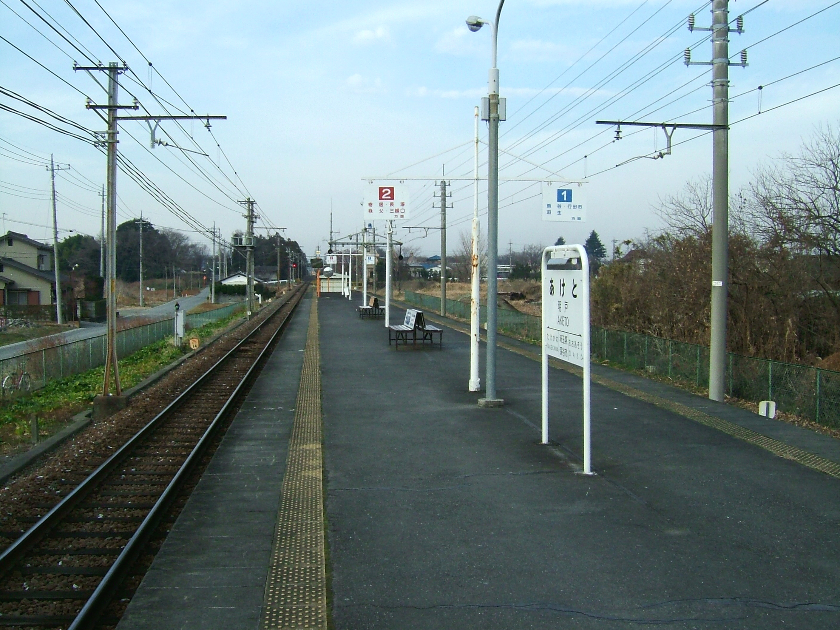 The platform at Aketo Station on the Chichibu Main Line